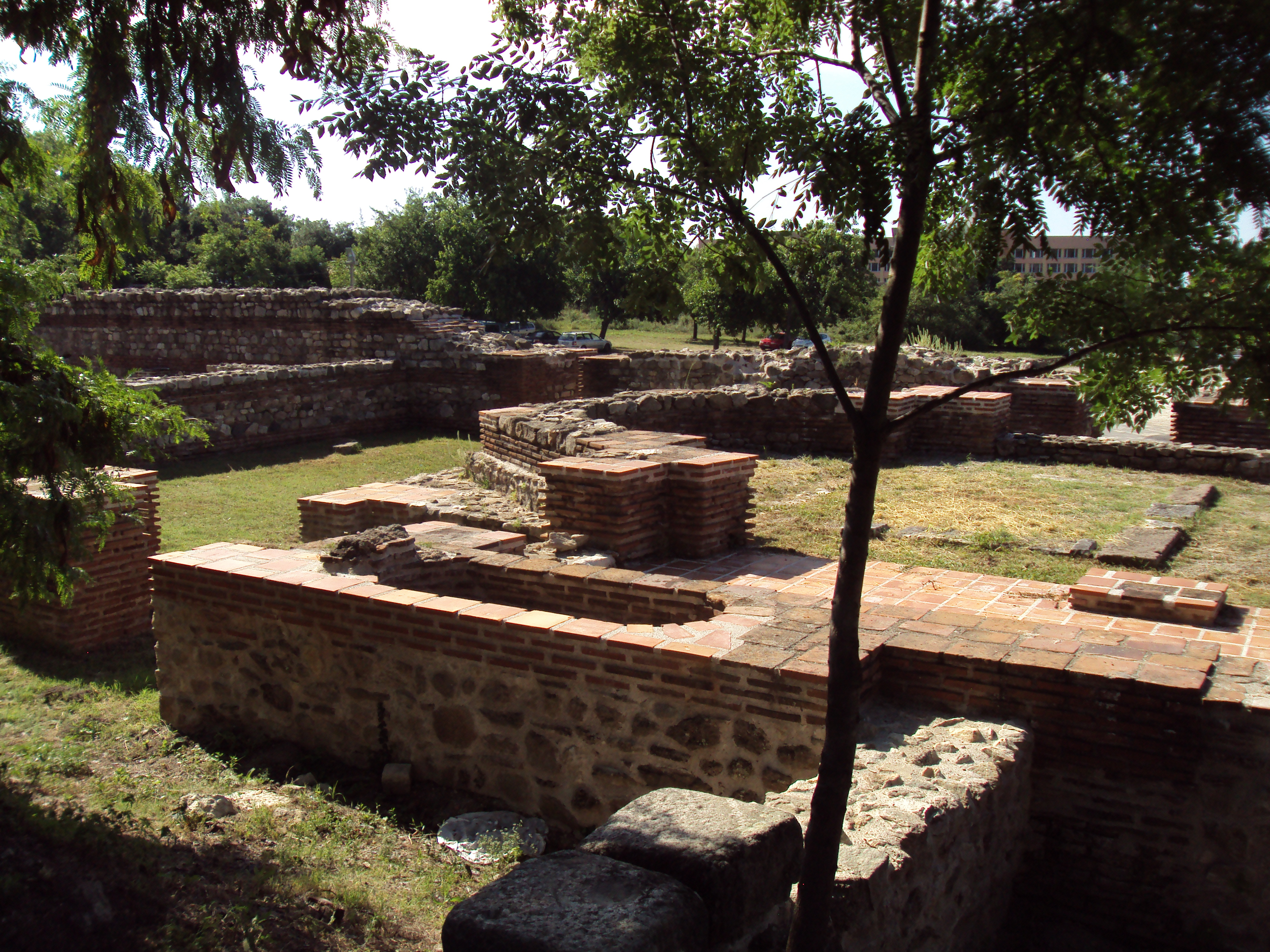 Hisarya, Bulgaria. Roman Thermae